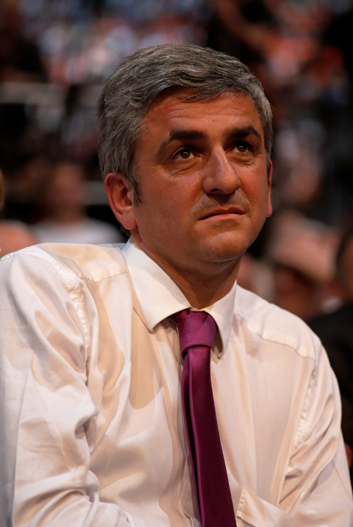 French MP Hervé Morin at a rally for François Bayrou, centrist candidate in the 2007 French presidential election, heald on Apr. 18, 2007 at Paris Bercy.